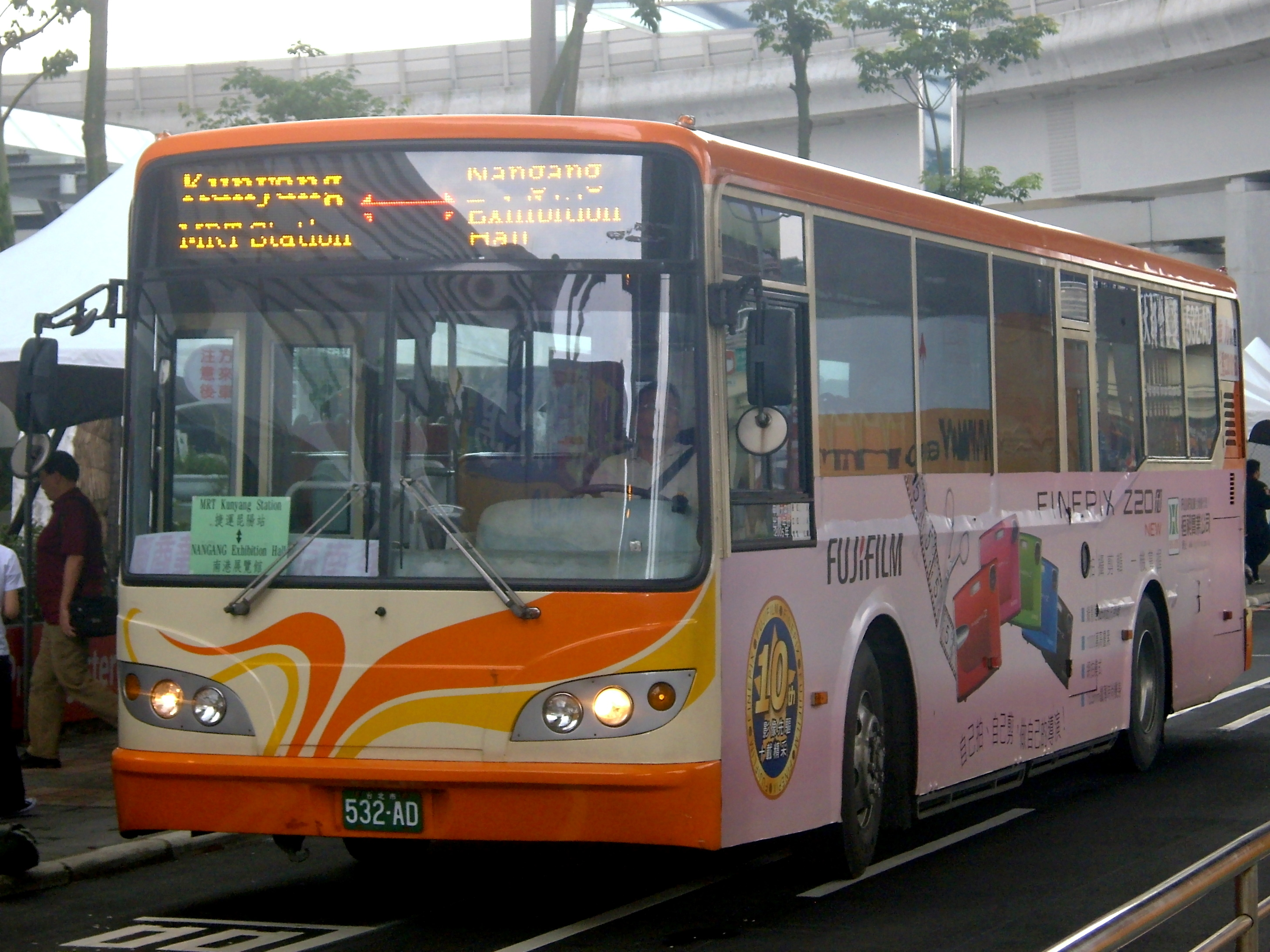 2008 Computex: MRT Kunyang Shuttle Bus.